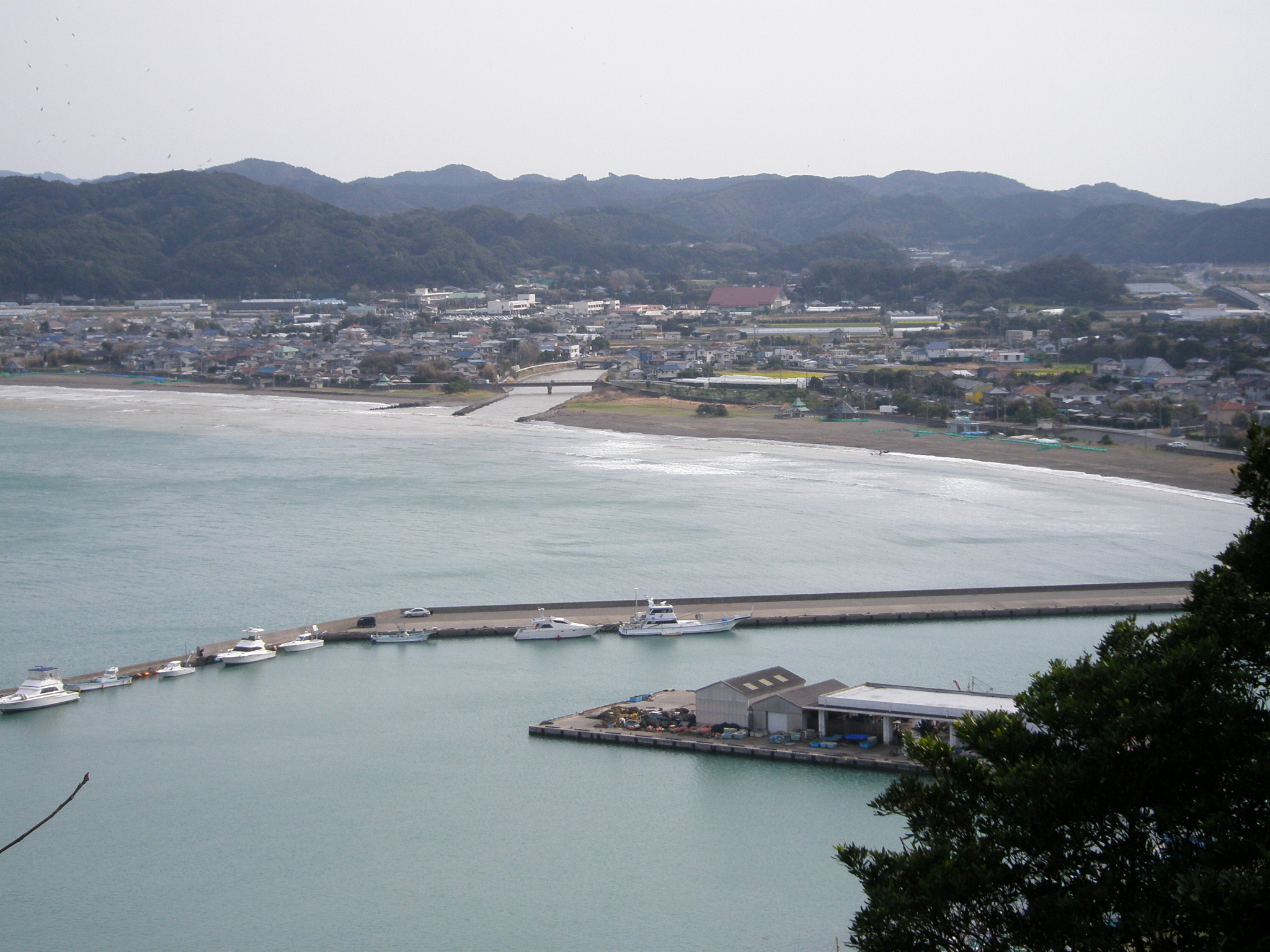 View of Tomiura area, Minamiboso city from Cape Taibusa.